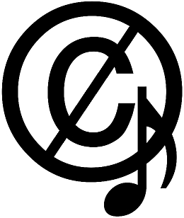 The crossed out copyright symbol with a musical note on the right hand side is the free music symbol, signifying a lack of copyright restrictions on music. It may be used in the abstract, or applied to a sound recording or musical composition.